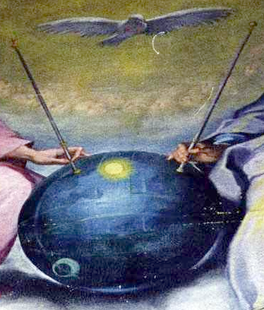 detail The so called UFO or “Sputnik” of Montalcino. This is actually the name so often used by certain sites to refer to the object between the figures of the Holy Trinity, which is not an UFO. That object, painted in many Trinity representations, is a symbol of the "Celestial Sphere", and in this particular painting contains the illustration of the Sun and the Moon.